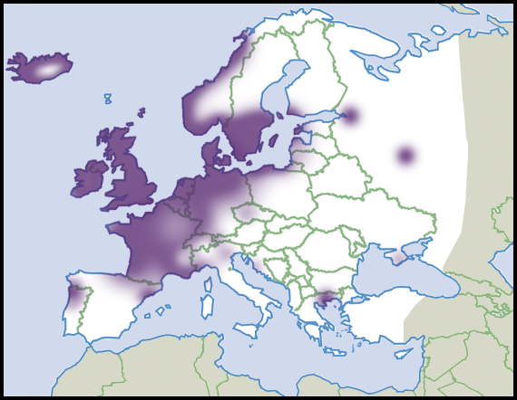 Oxychilus alliarius (Miller, 1822). Distribution in Europe, scientific state of knowledge of 2012. Source description in English. Light colour indicated rare occurrences or regions where the species could eventually be expected to occur. Dark colour indicated relatively reliable occurrences, as well as regions where the species was expected to occur, and where the species was not known to be extremely rare. Dark colour indications were not necessarily based on published records. Species summary in AnimalBase